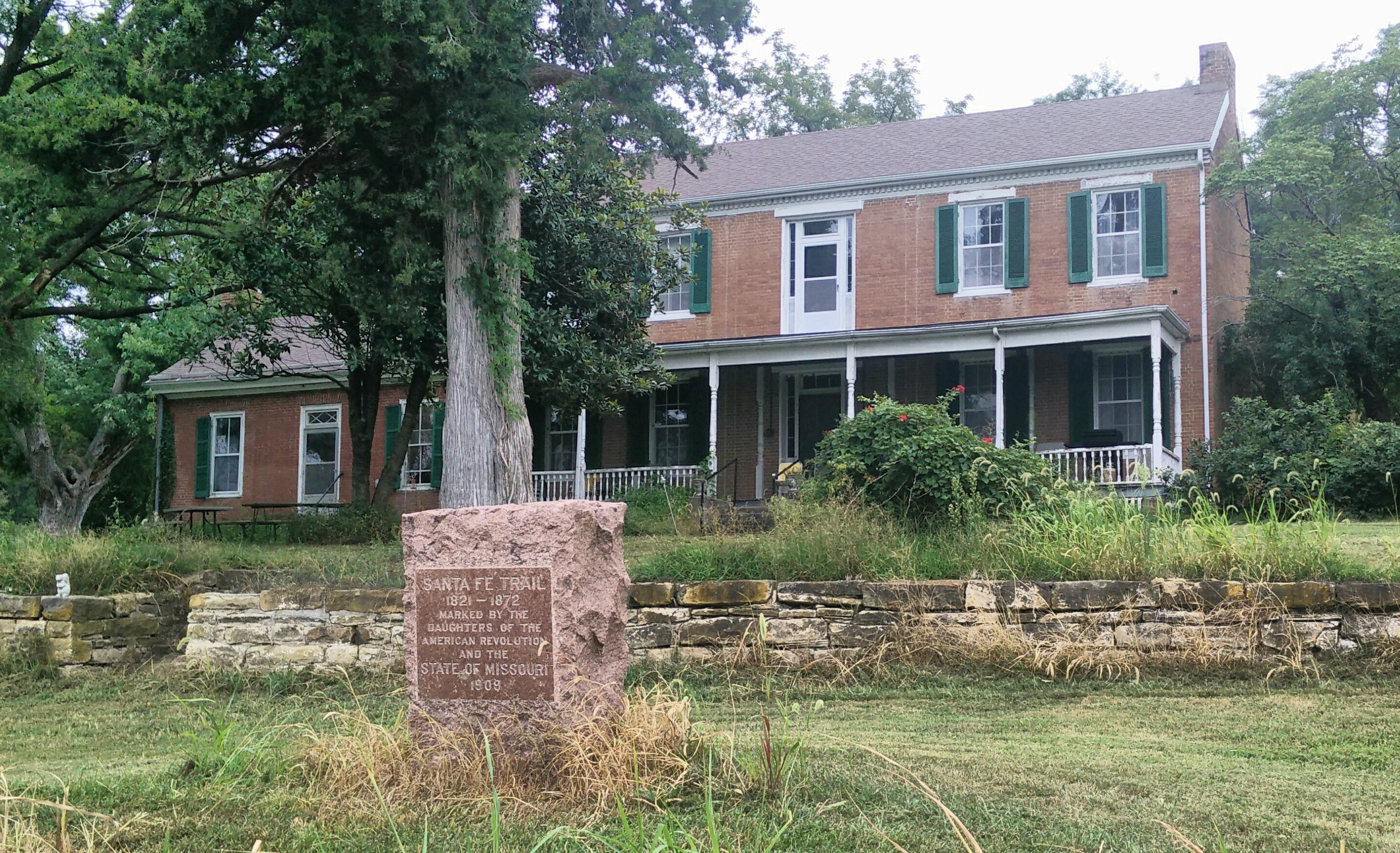 Cedar Grove, also known as the Amick-Kingsbury House, is a historic home located near Franklin, Howard County, Missouri. The original one-story Federal style section was built about 1825, with the two-story Greek Revival main house added in 1856. Both sections are constructed of brick. The original section has a hall and parlor plan and the main house a traditional central passage I-house. The house is still in use today as a residence.